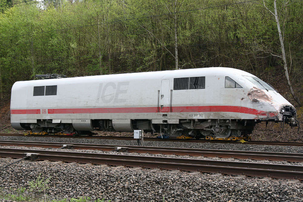 The ICE power head 401 511 after a collission with several sheep that caused it to derail. Here, taken three days later, at the operational train station of Mottgers, near the southern tunnel entrance.